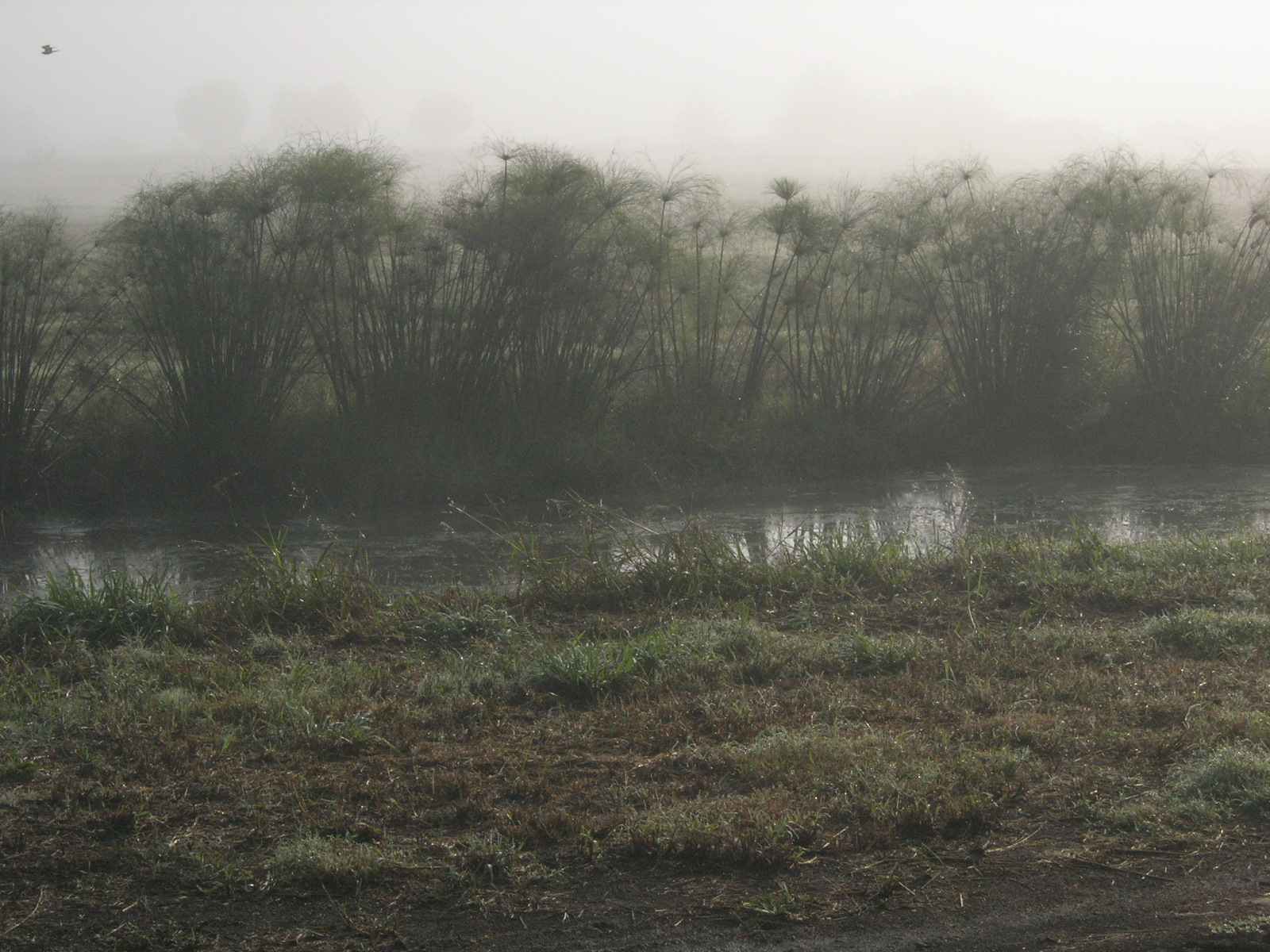 Cyperus papyrus in the Hula valley, Israel